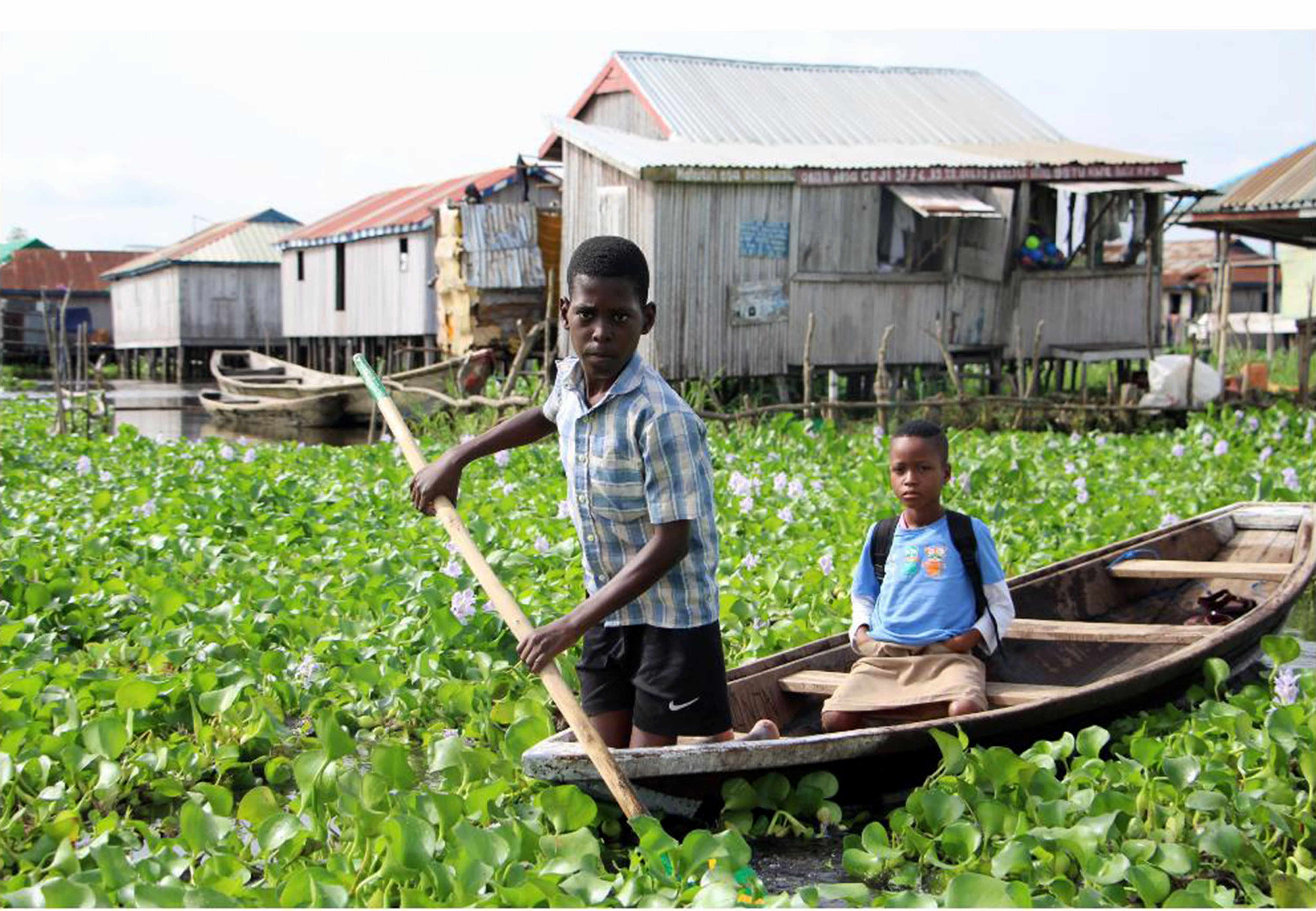 lilies on the surface of the water prevents the canoe of these schoolchildren from going to school This is an image with the theme "Africa on the Move or Transport" from: Benin